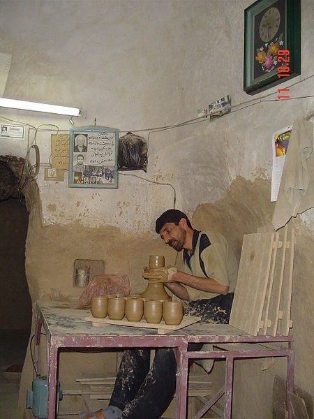 Potter - Lalejin